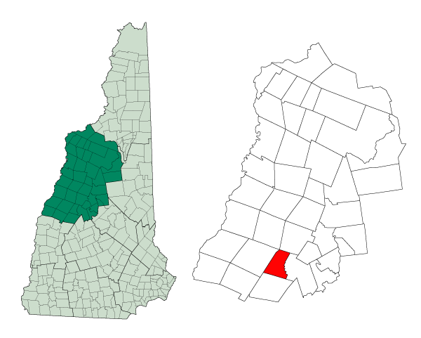 Map of a municipality in Belknap County, New Hampshire